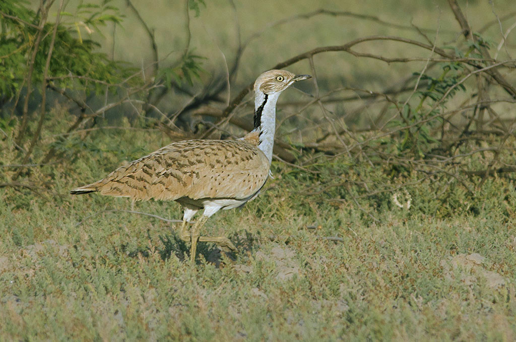 Macqueen's Bustard Chlamydotis macqueenii in Greater Rann of Kutch, Gujarat, India